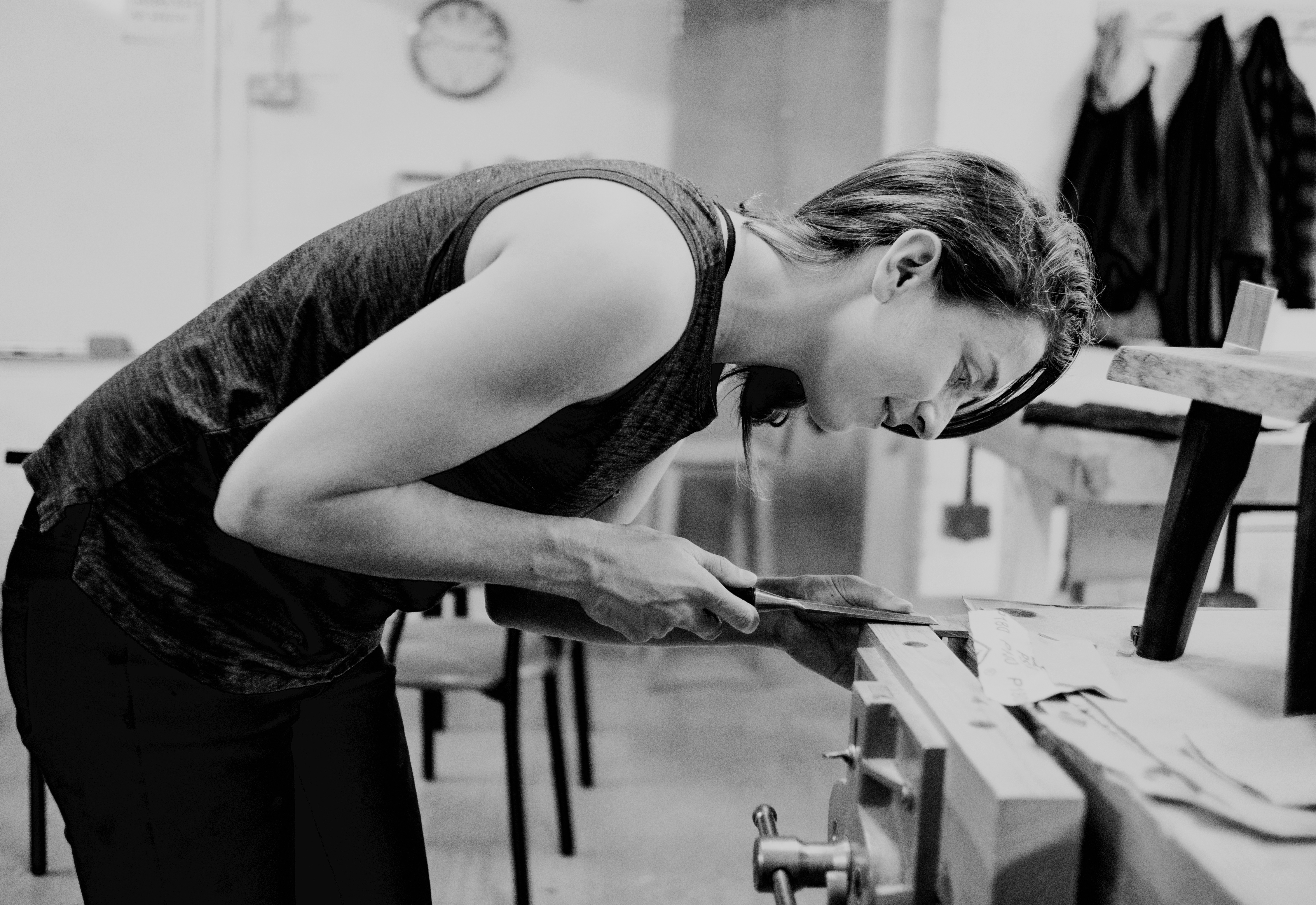 OLYMPUS Pen-F